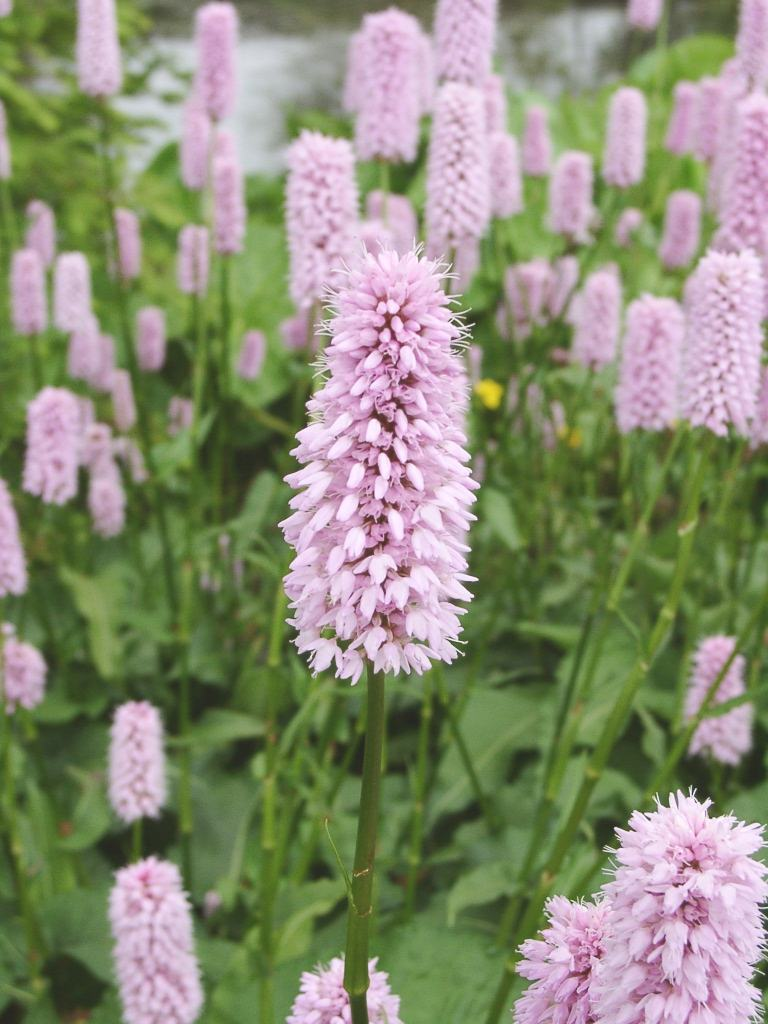 Persicaria bistorta 'Superba', uploaded to wiki by User:Ramin Nakisa under GFDL.